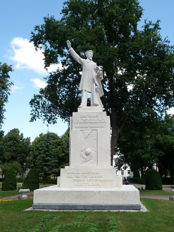 The monument to Vincas Kudirka, the author of Lithuania's national anthem (sculptor Vincas Grybas)